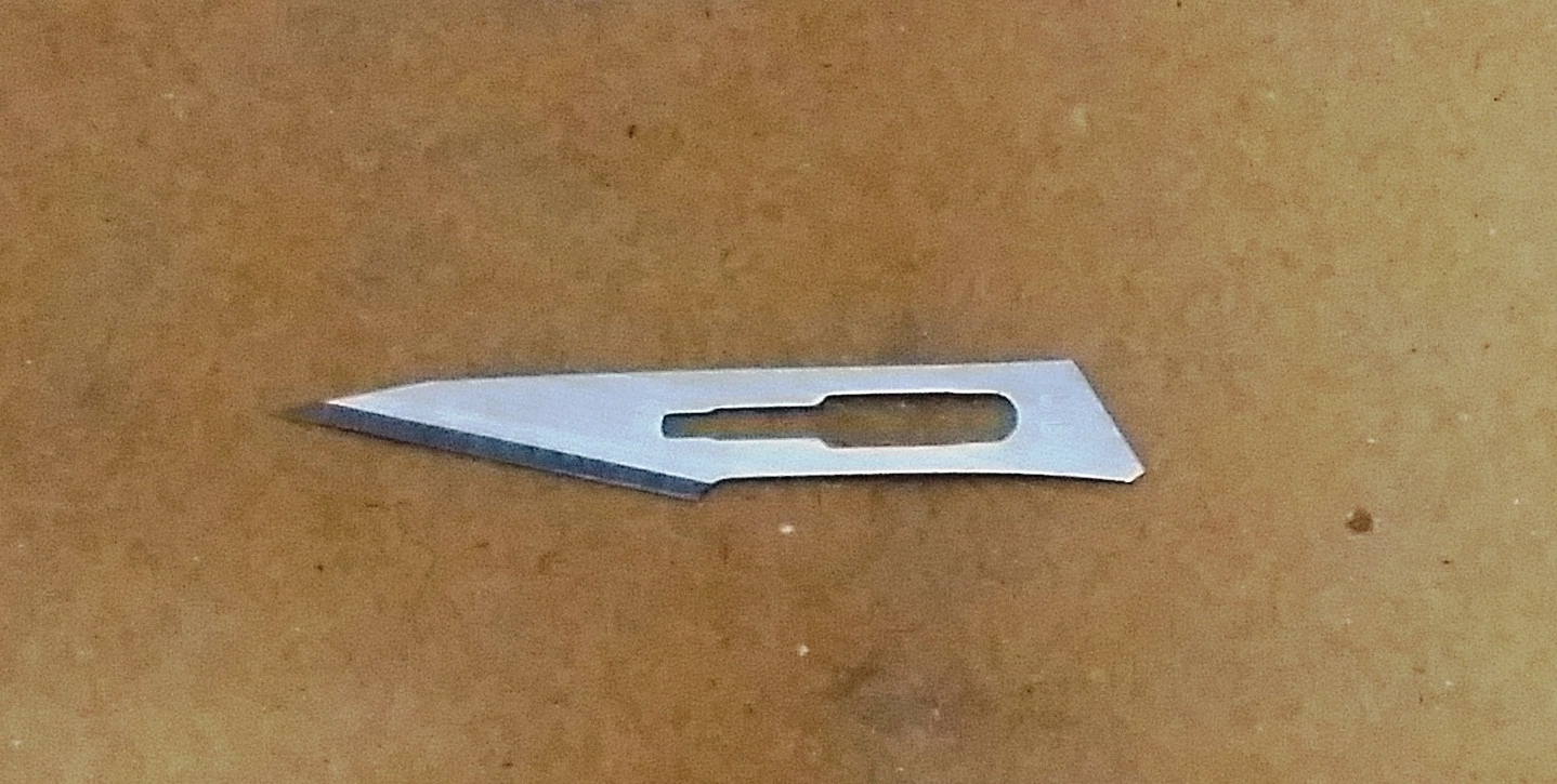 11 blade